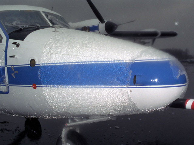 Post-flight image shows ice contamination as a result of encountering Supercooled Large Droplet (SLD) conditions near Parkersburg, WV.